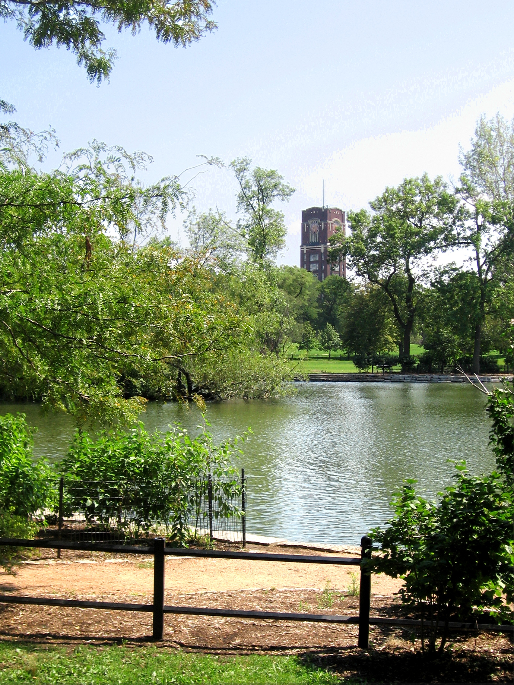 McKinley Park lagoon, facing south. The building in the background is the partially-renovated office building at Damen Ave and Pershing Rd.